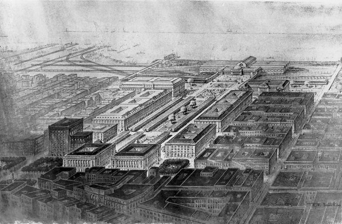 Illustration of the Group Plan for Cleveland, Ohio